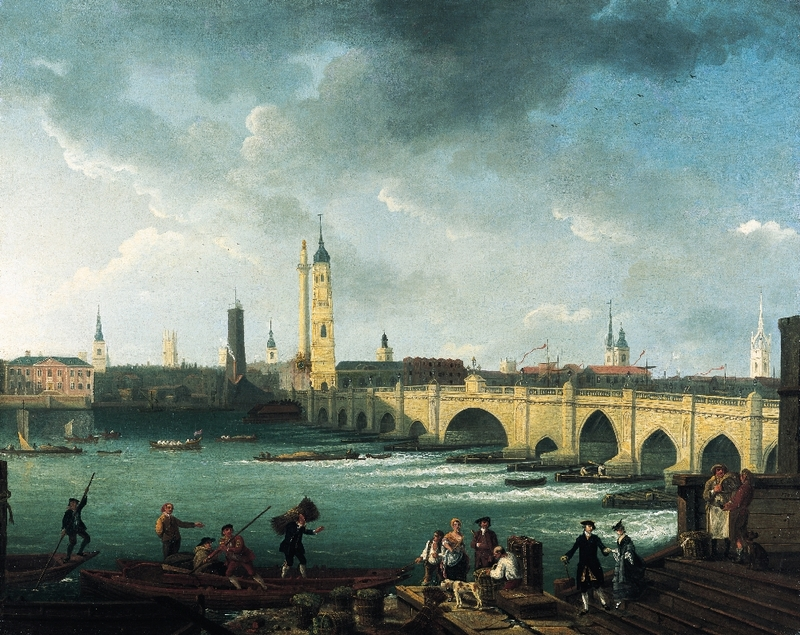 London Bridge from Pepper Alley Stairs by Herbert Pugh. Oil on canvas, 98 x 123 cm